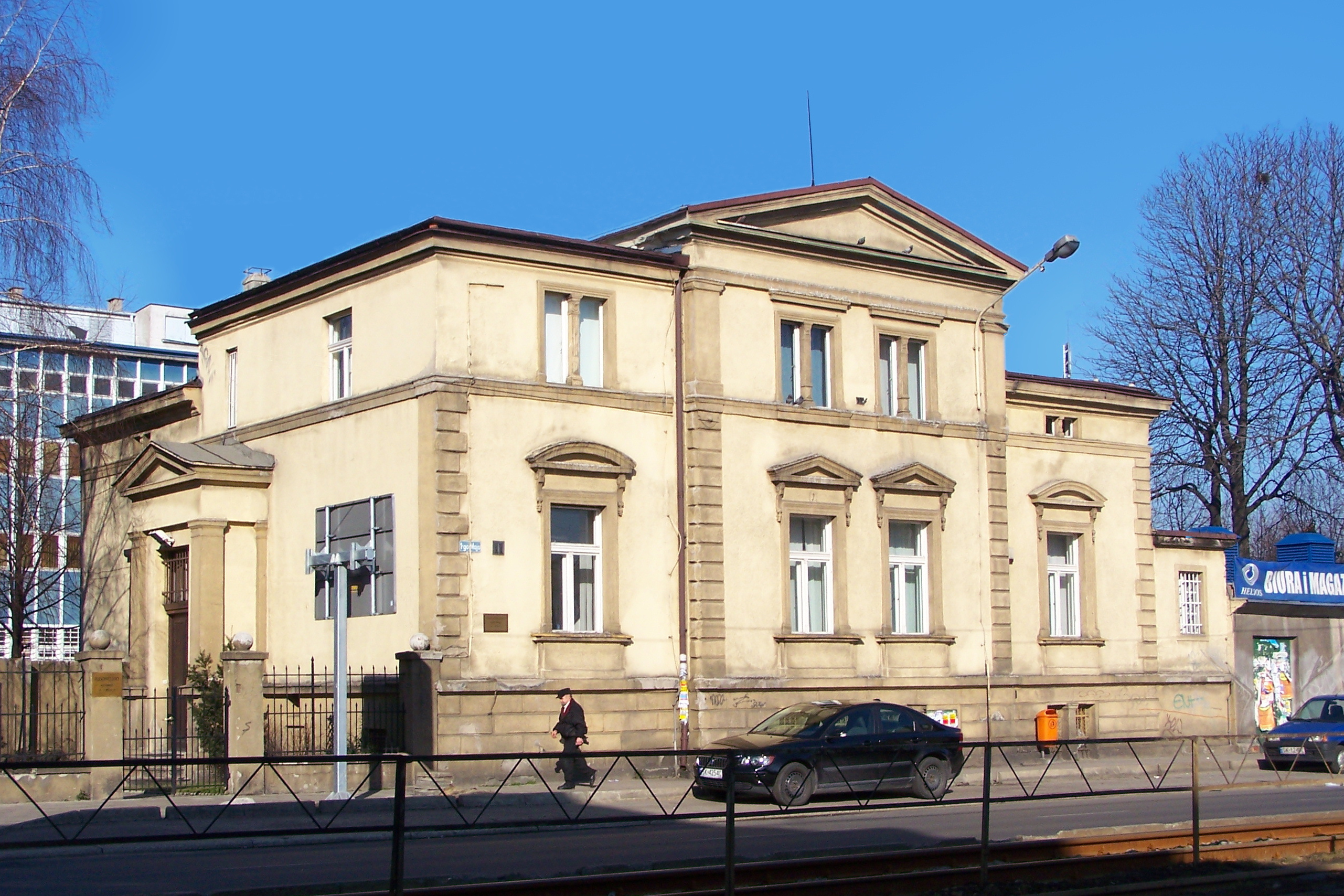 1-go maja street in Katowice (Poland).